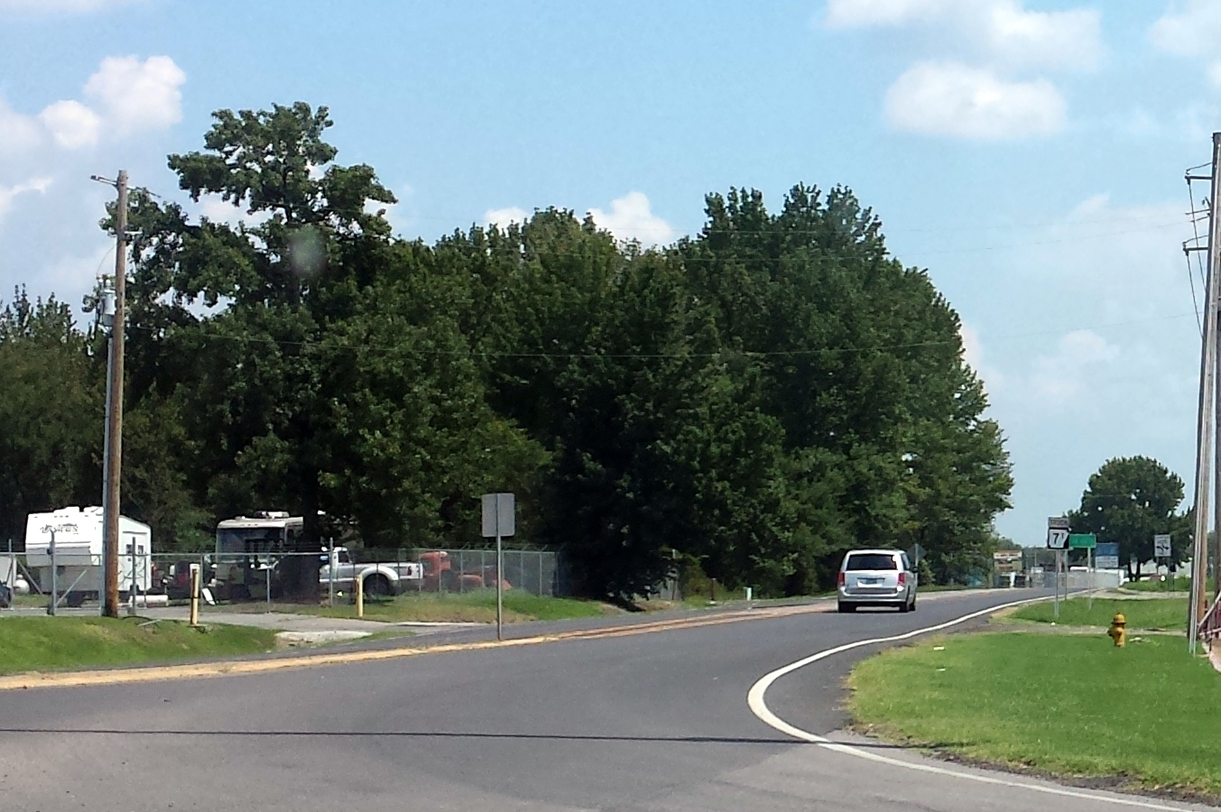 Highway 7 Truck in Russellville, AR. Looking east